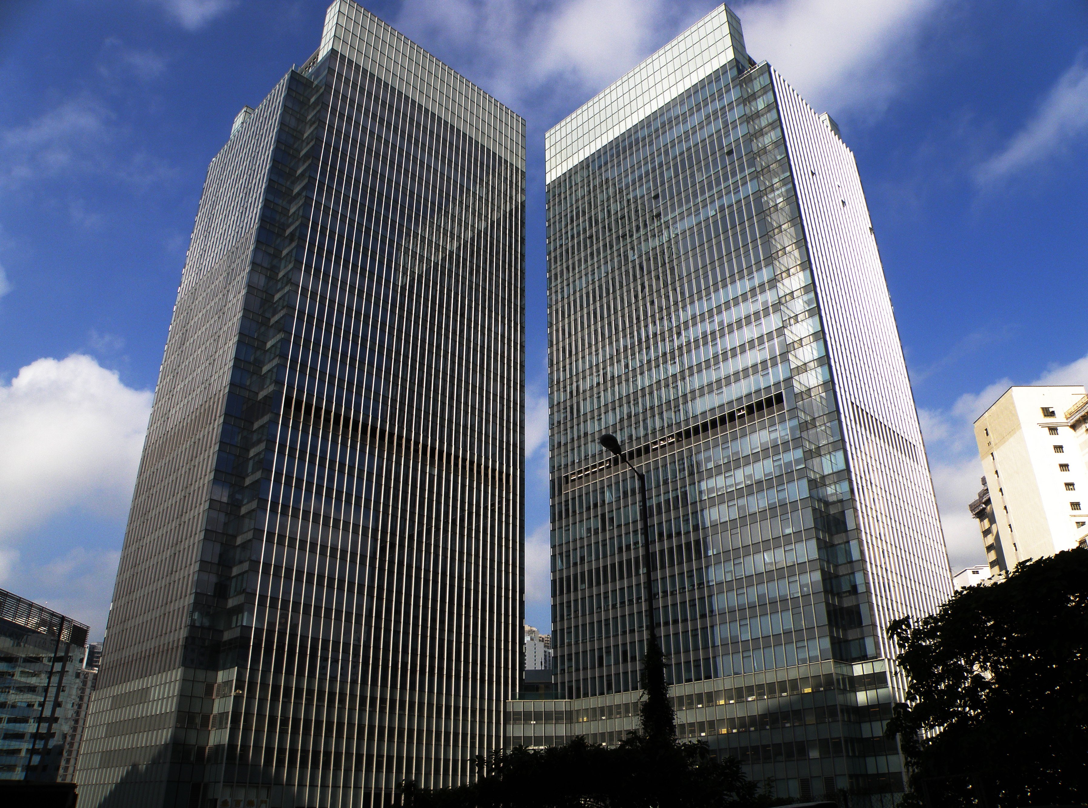 Kowloon Commerce Centre in Kwai Hing, Hong Kong.